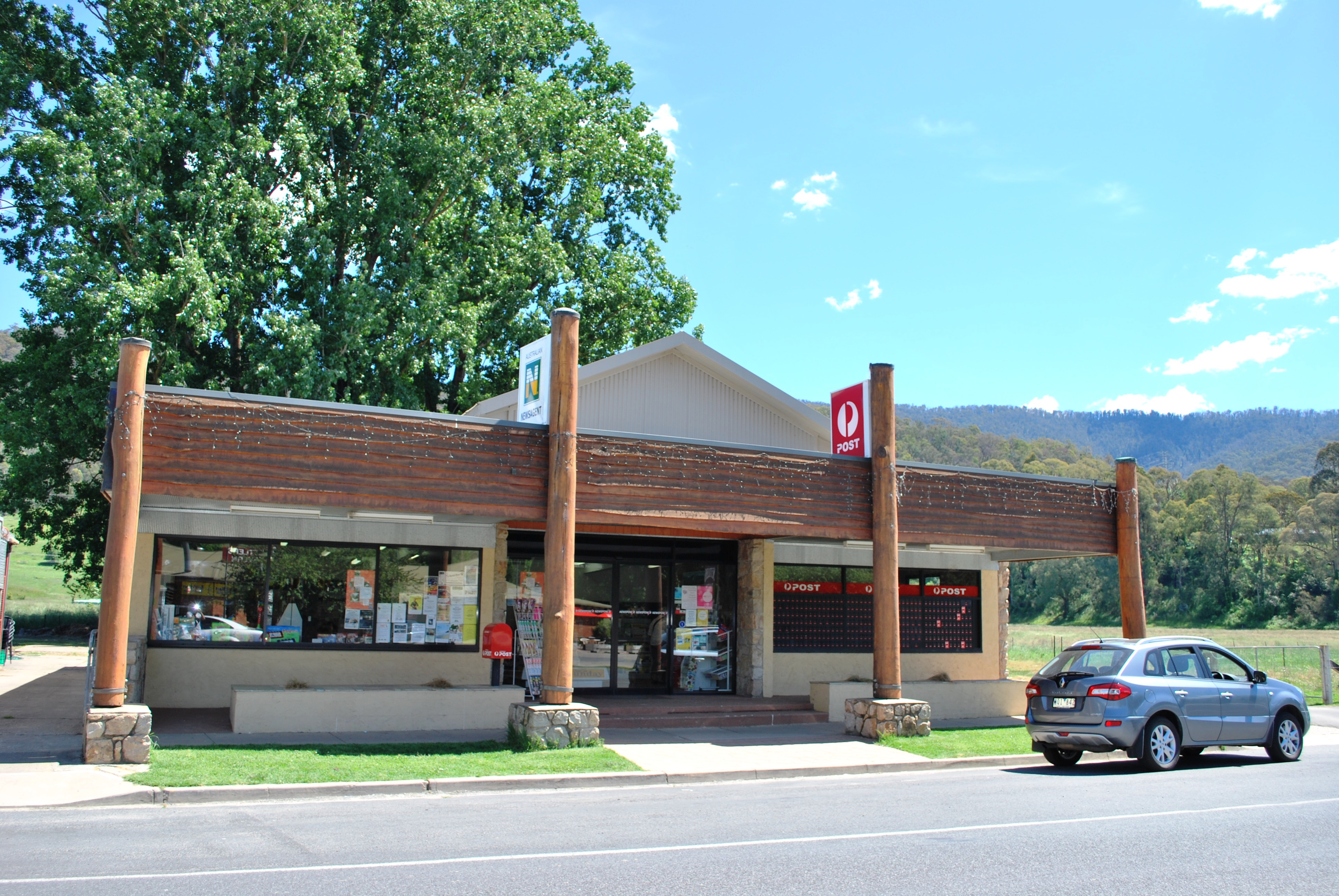 Newsagency and post office at Tawonga South, Victoria